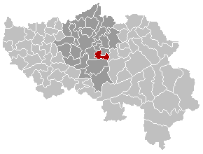 Location map of Trooz.